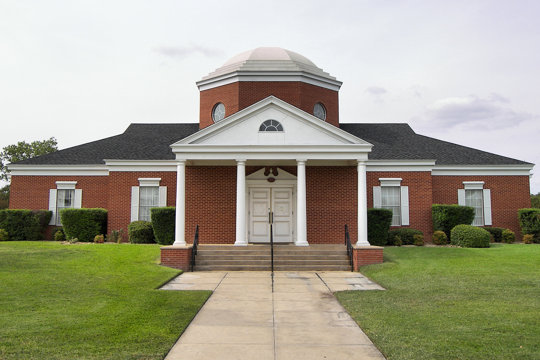 Improved Order of Red Men Museum and Library, Waco, Texas, United States.